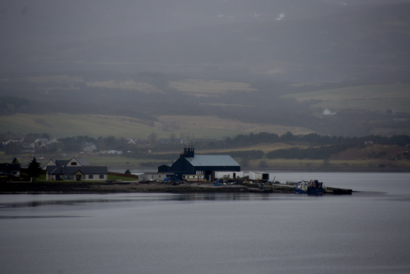 Ferry Point, Dornoch Firth Former ferry crossing at the end of the Ness of Portnaculter.